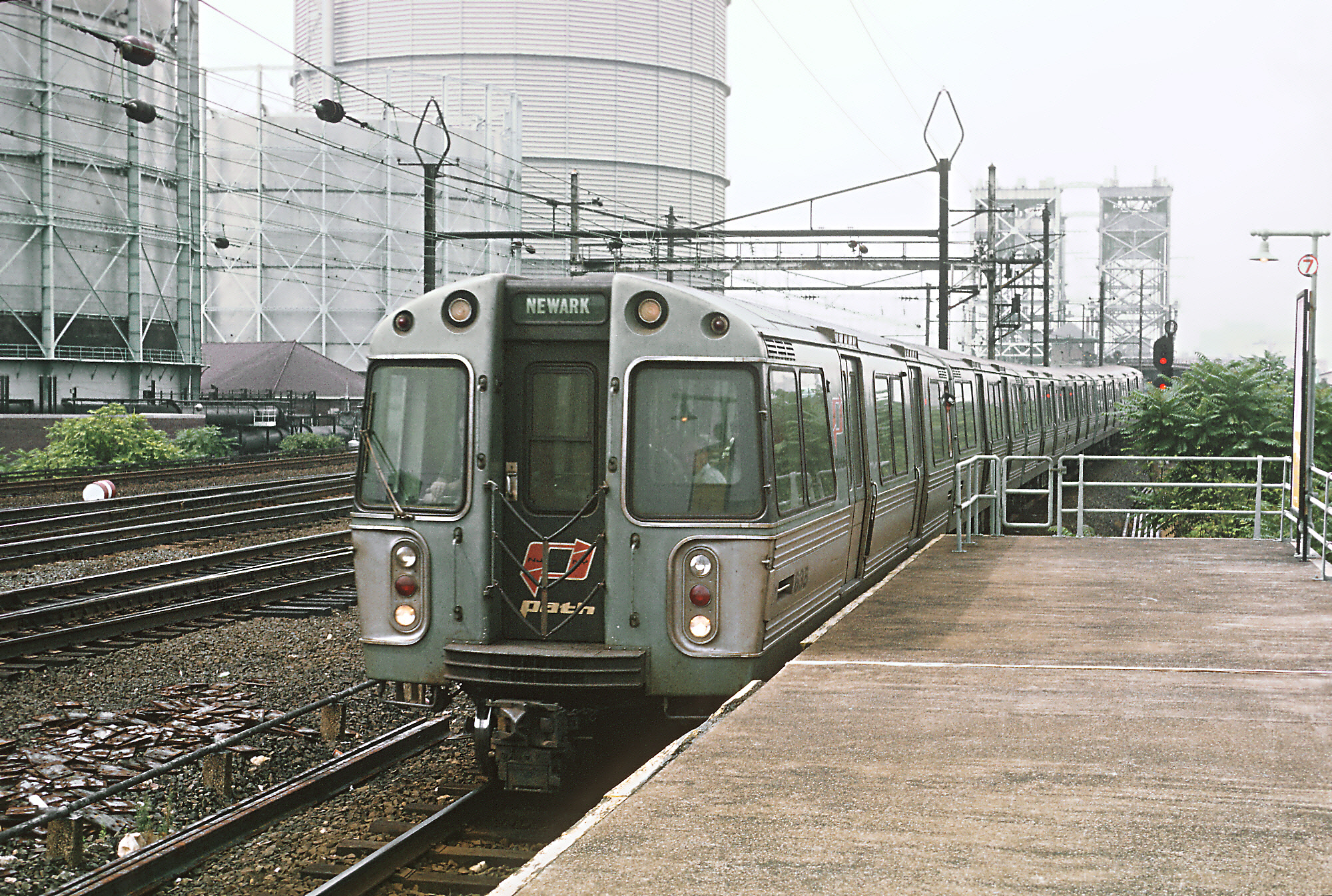 A PATH train at Harrison station in July 1969